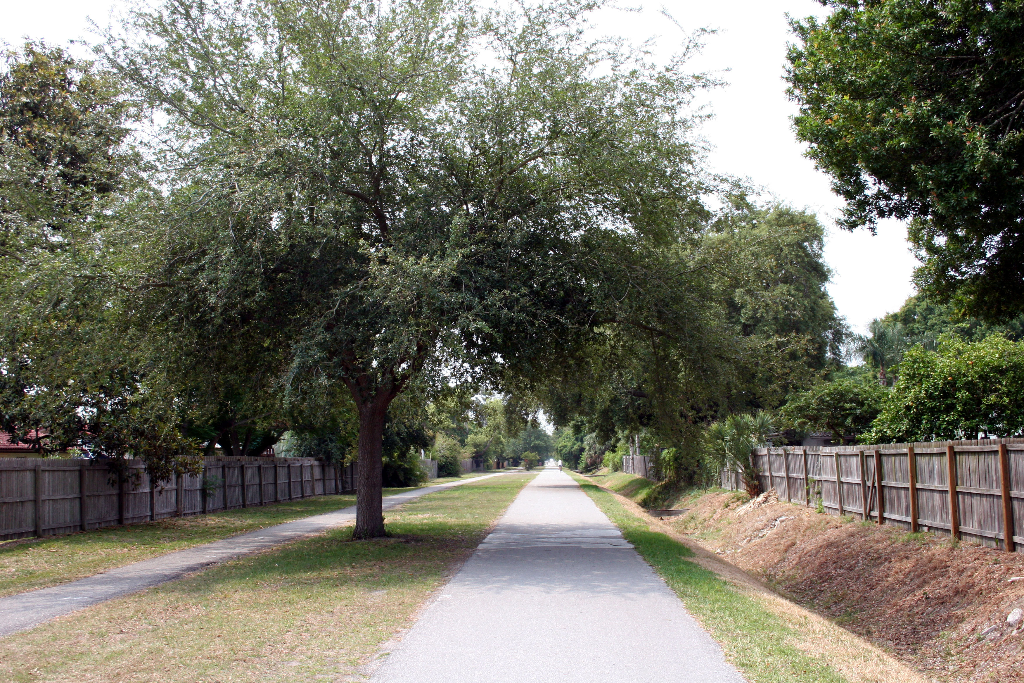 Photo of the Pinellas Trail taken on 5/14/2007 by Ronnie Boone (aka BucsWeb).